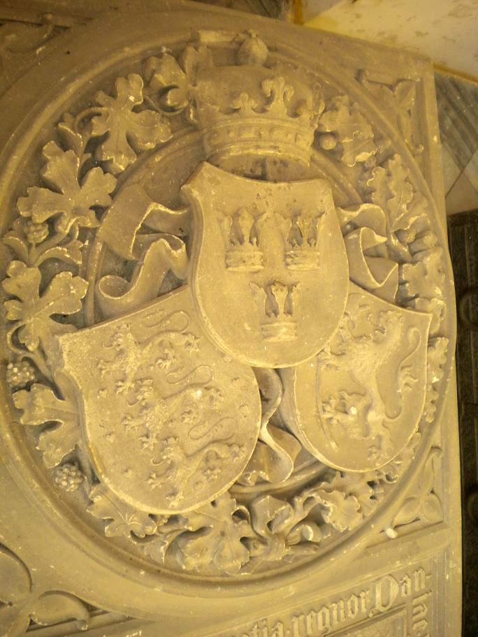 Sarcophagus detail on the grave of King Eric the Pomeranian of Denmark, Norway & Sweden at Church of St. Mary’s, as released by image creator Ristesson;Place: Darłowo, Poland